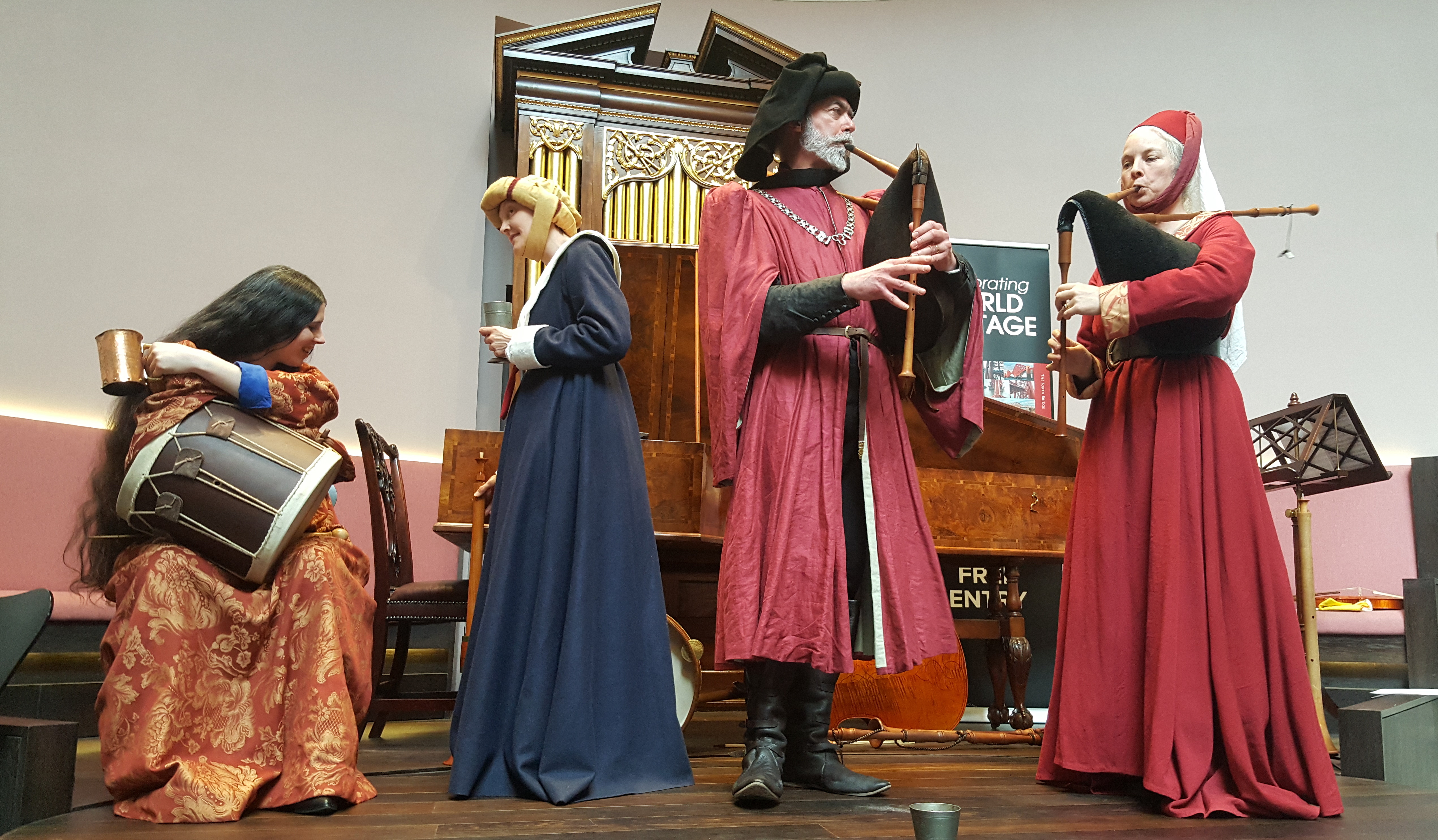 The finale of the 2017 World Heritage Day 'Battle of the Bands' in Edinburgh at the newly refurbished St Cecilia's Hall, Scotland's first dedicated concert hall. Medieval minstrels played against Georgian-era musicians across the city. Organised by Dig It! 2017 as part of the #ScotlandinSix campaign and Scotland's Year of History, Heritage and Archaeology. This file was uploaded by Dig It!, a year long celebration of archaeology coordinated by Archaeology Scotland and the Society of Antiquaries of Scotland. This tag does not indicate the copyright status of the attached work. A normal copyright tag is still required. See Commons:Licensing for more information.